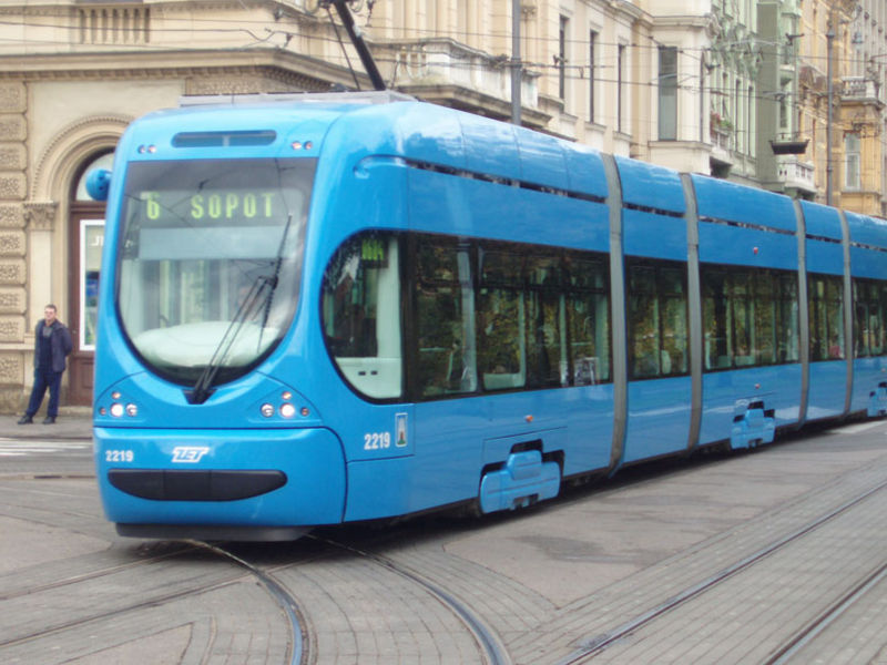 Crotram TMK 2200 tram (#2219) in Zagreb, Croatia. Built 2006.